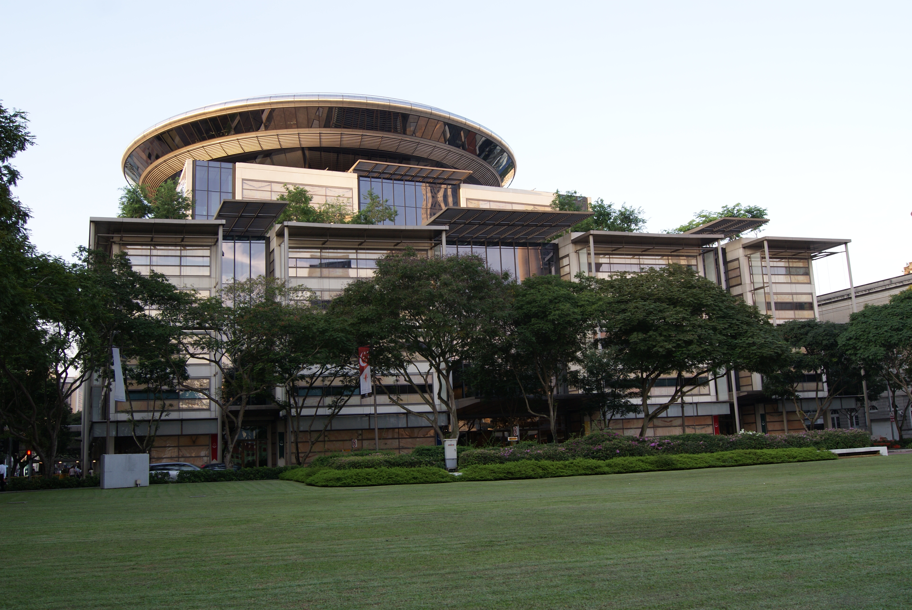 The Supreme Court of Singapore, photographed from the lawn of Parliament House.